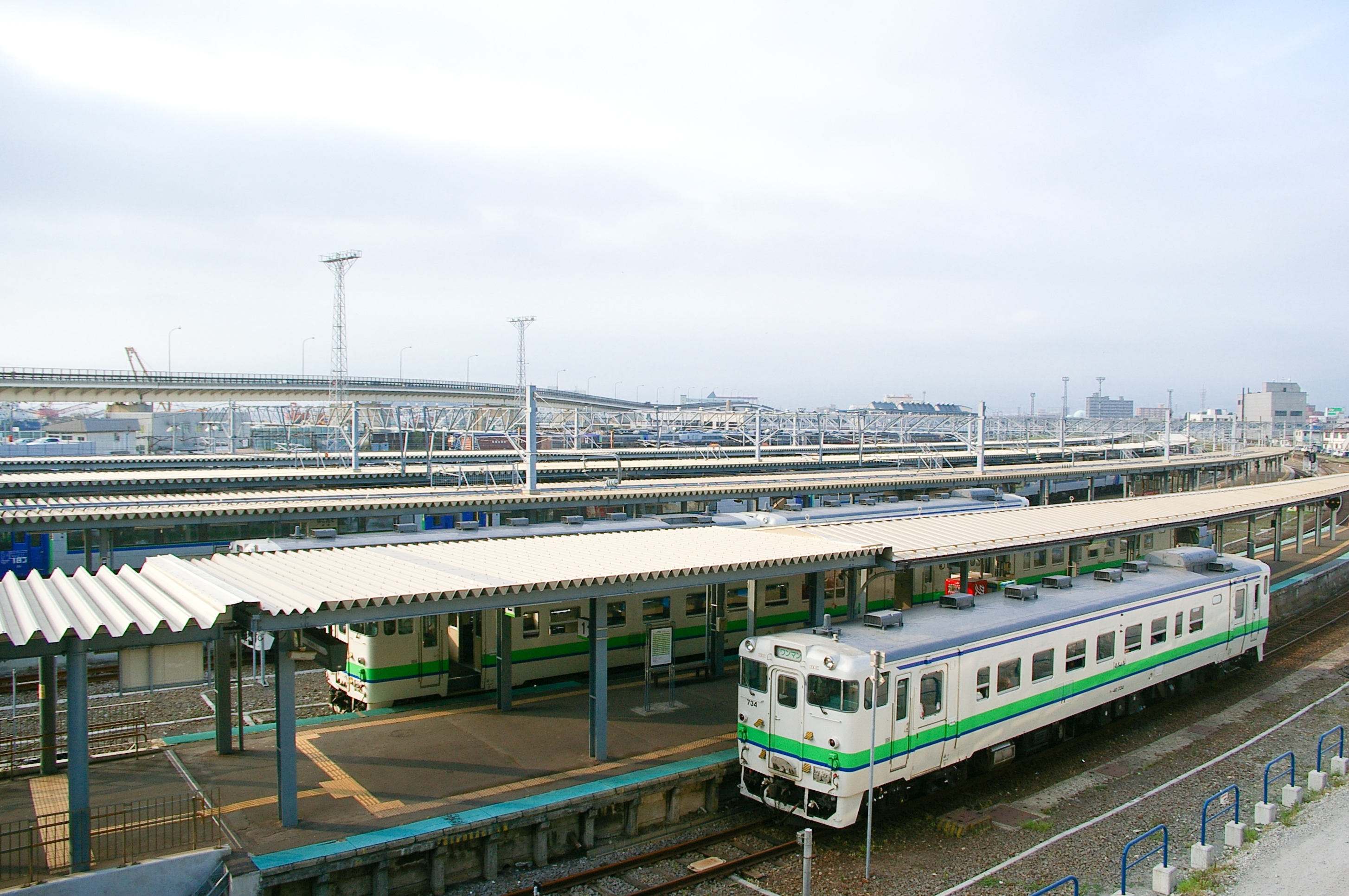 Photograph of the platforms of Hakodate Station in Hakodate, Hokkaido, Japan.